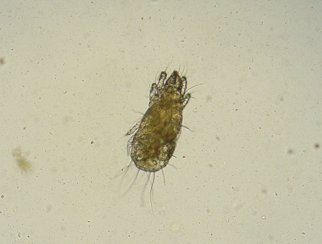 Acarus siro Photo taken at 100x magnification through a microscope of a grain mite, a common finding in fecal analyses of dogs fed food that has not been stored properly. These mites are not parasites and must be distinguished from parasitic mites that a dog may swallow.